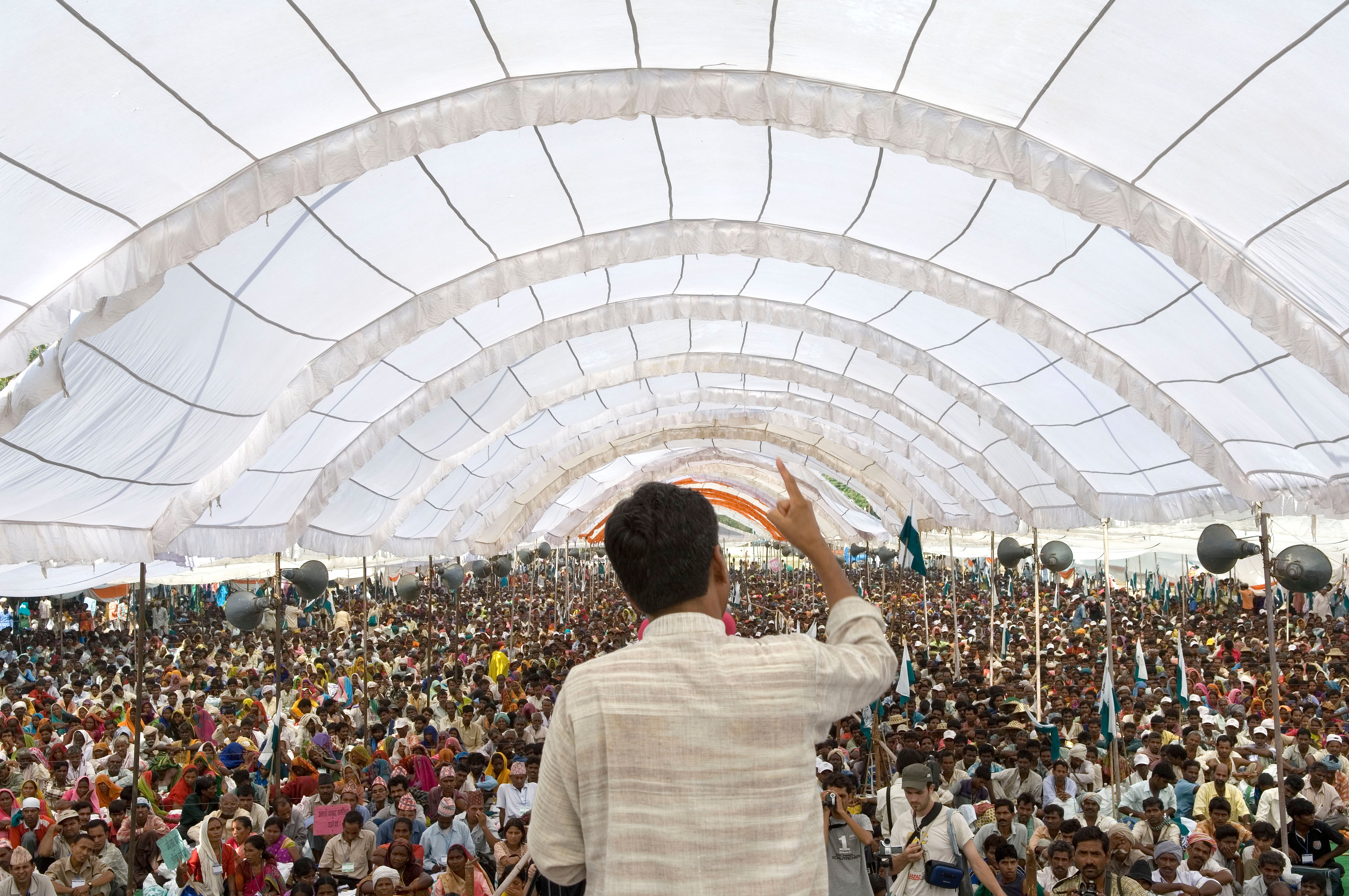 Rajagopal speaking on October 2, 2007 at the beginning of Janadesh 2007, a 350 km walk from Gwalior to Delhi by 25,000 people, India.